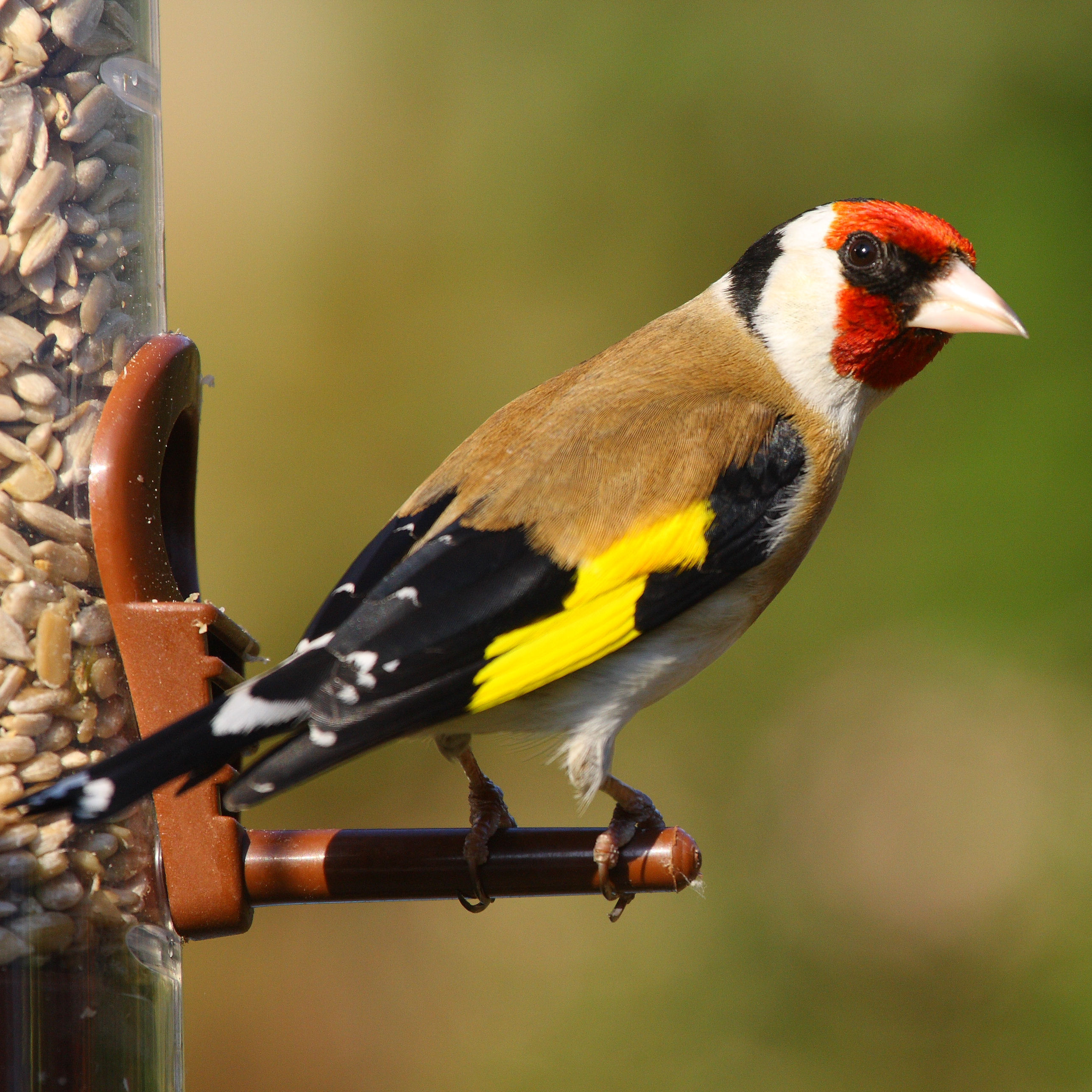 Goldfinch Carduelis carduelis. A frequent visitor who, after feeding, normally takes a drink at my bird bath – but not of course when I'm waiting with my camera. Telford, Shropshire, England.